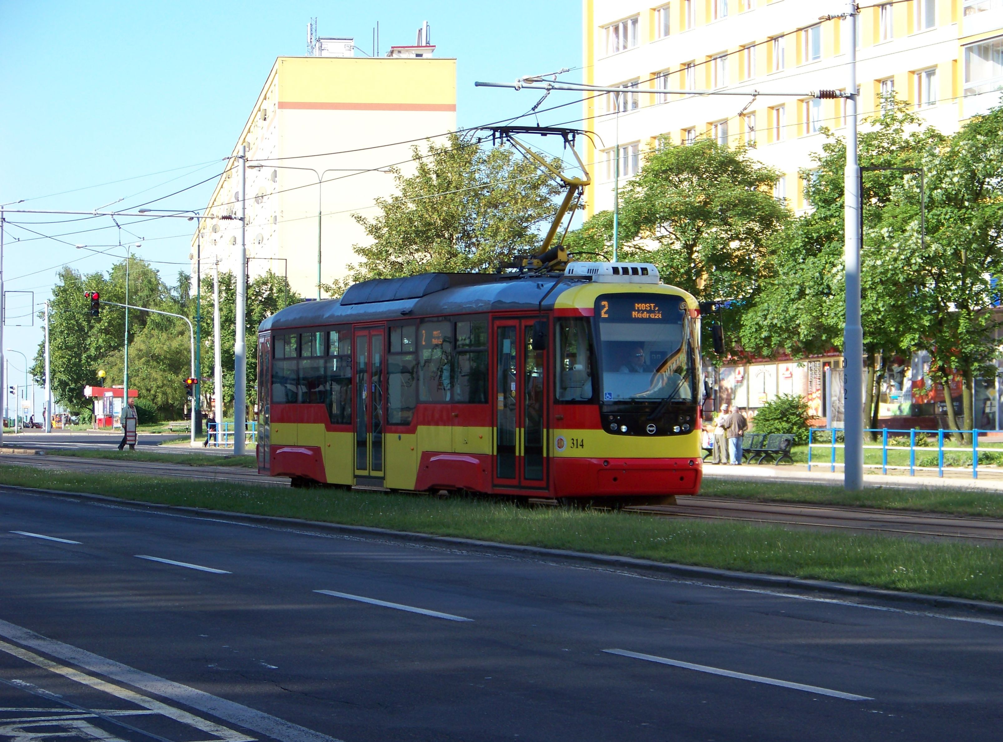 Most, Most District, Ústí nad Labem Region, Czech Republic. Tř. Budovatelů, near the stop "Most, 1. nám.", Vario LF tram.